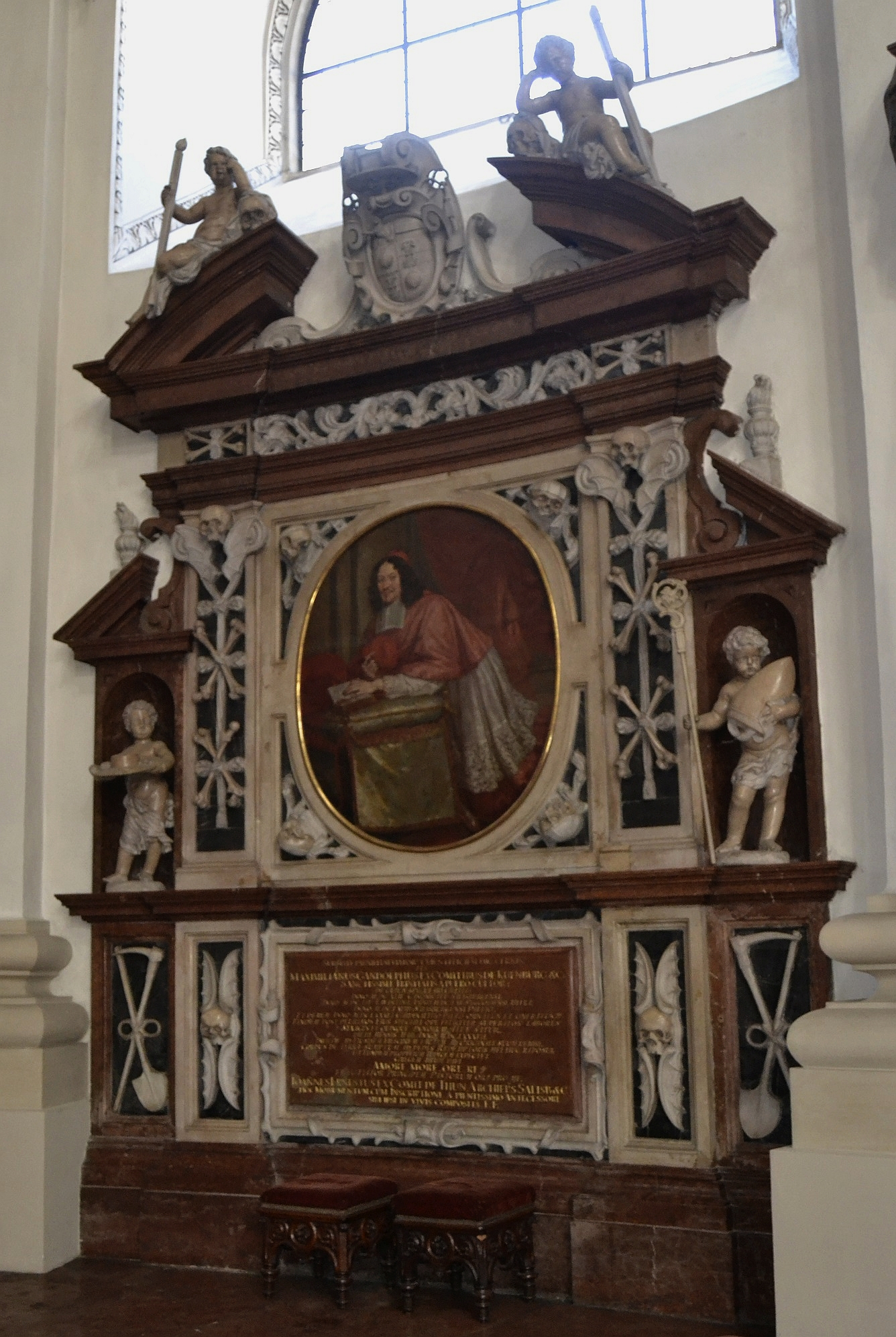 Salzburg Cathedral - cenotaph Archbishop Max Gandolf von Kuenburg